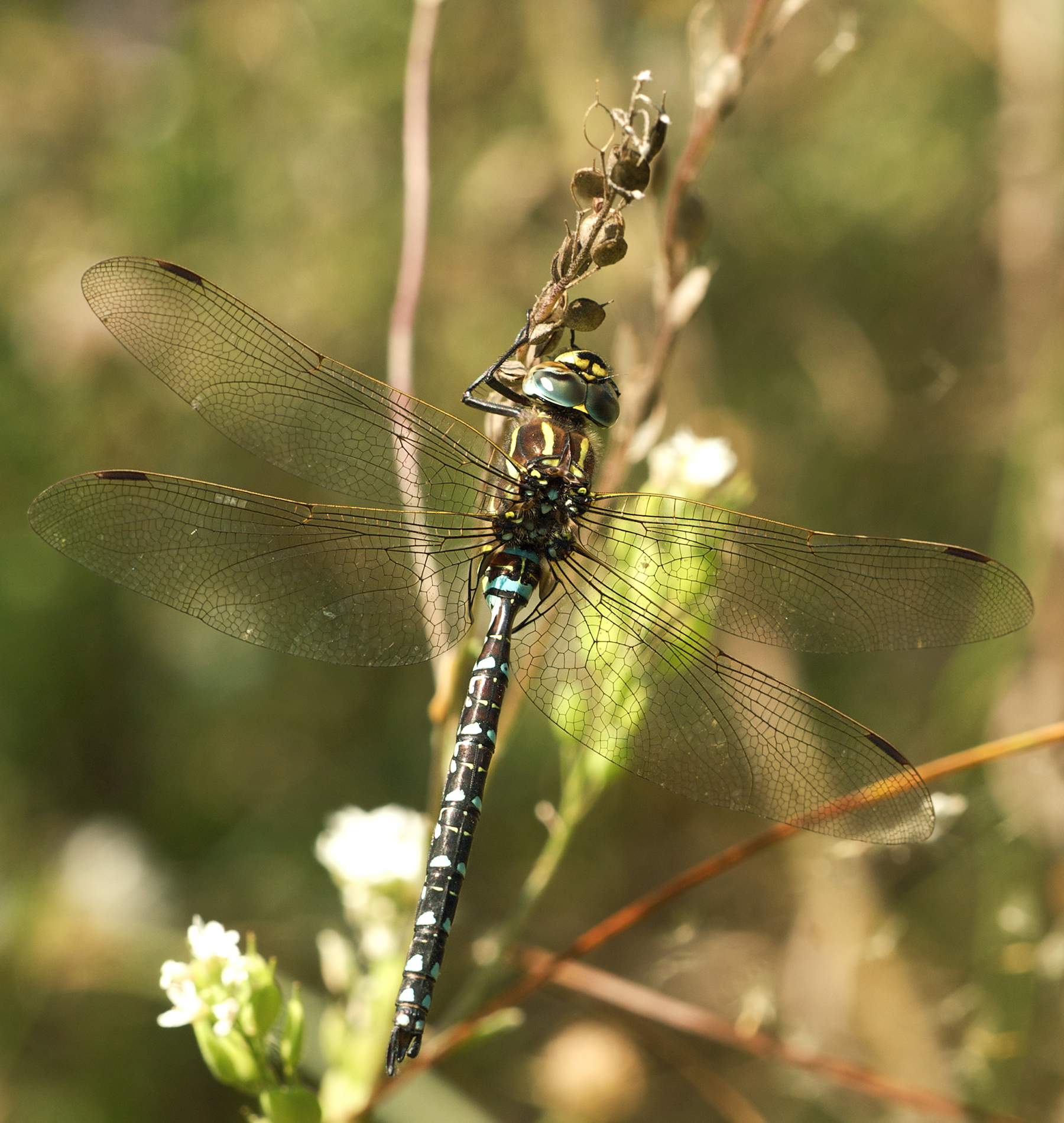 Male Common Hawker (Aeshna juncea), Chemnitz, Germany